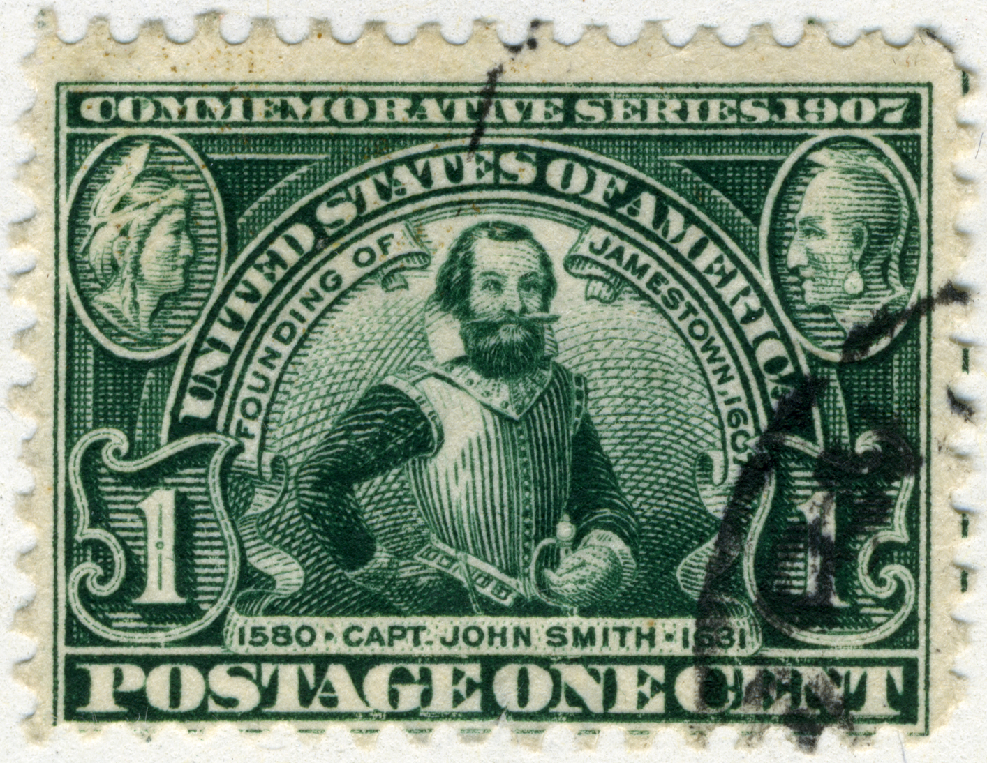 1-cent 1907 commemorative United States postage stamp, depicting John Smith. Part of the Jamestown Exposition commemorative series.